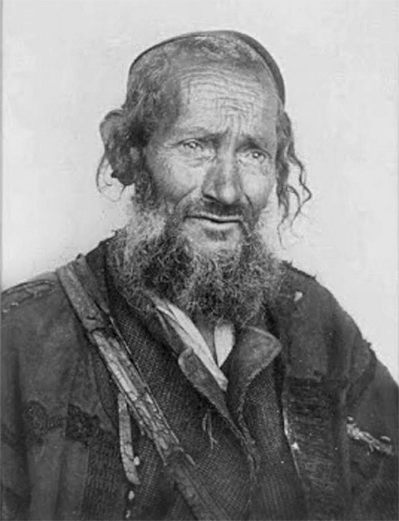 Rabbi Mordechai Aby Serour in his 50s taken in the 1880s.